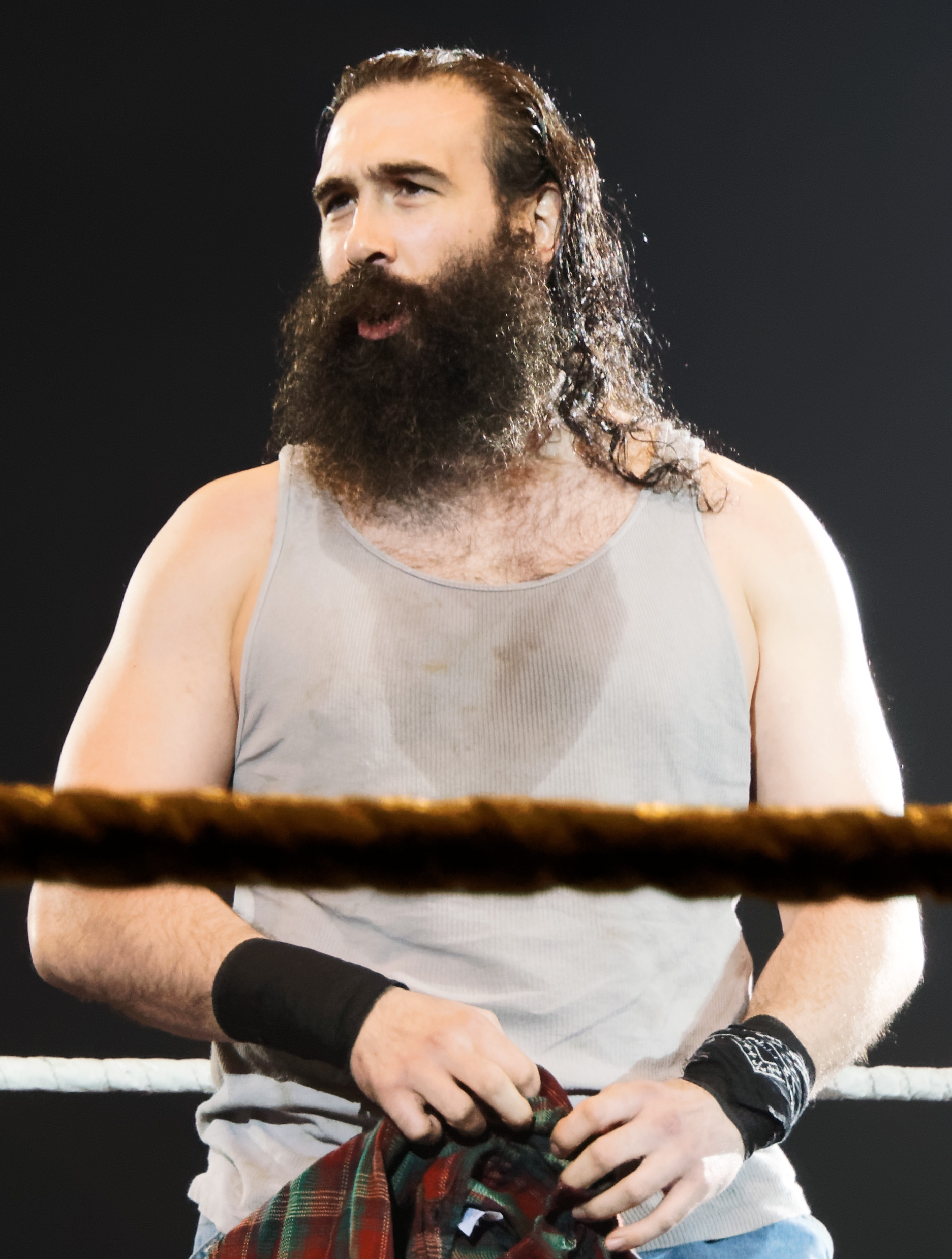 Luke Harper in April 2015.